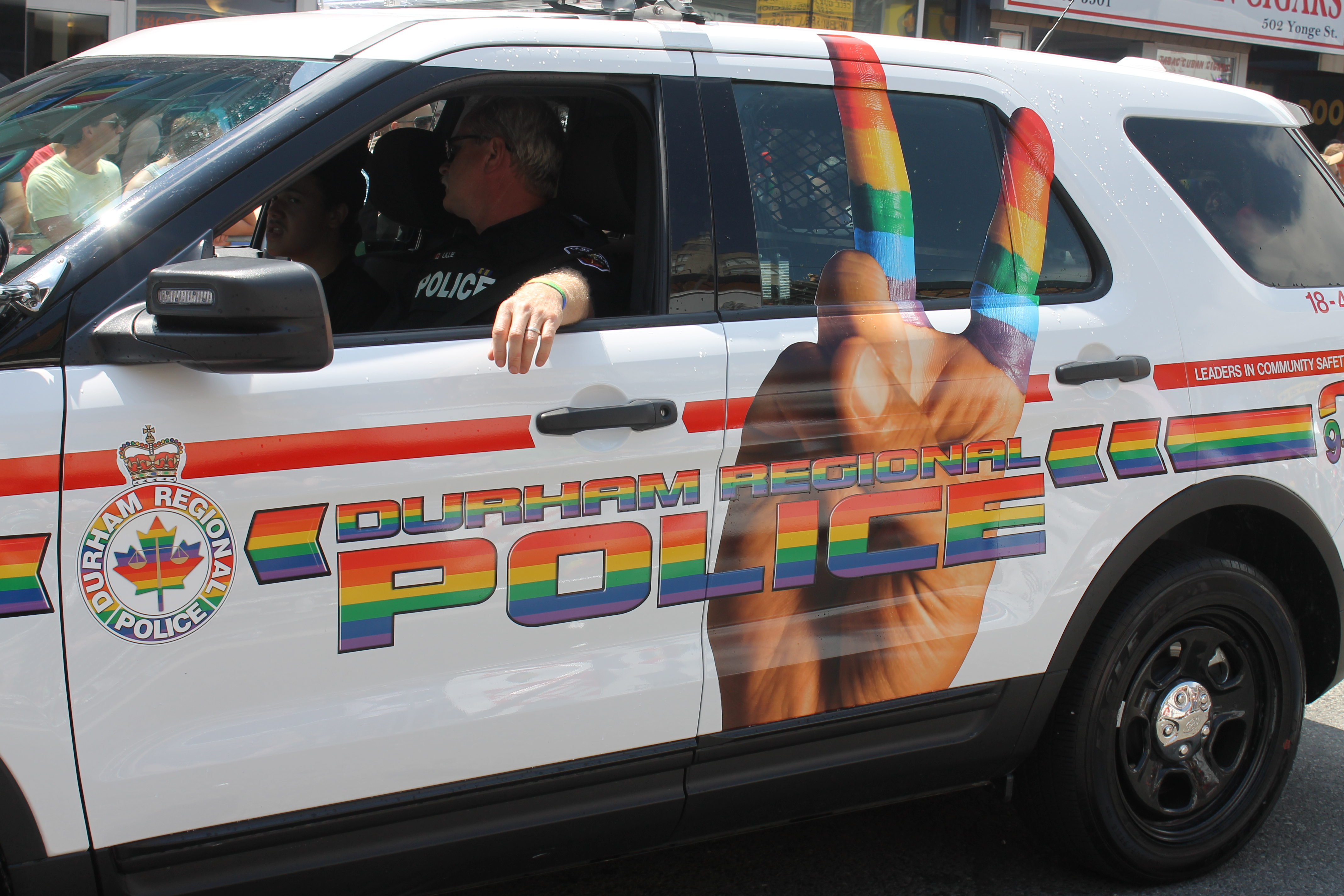 Durham Region Police celebrating Pride 2014